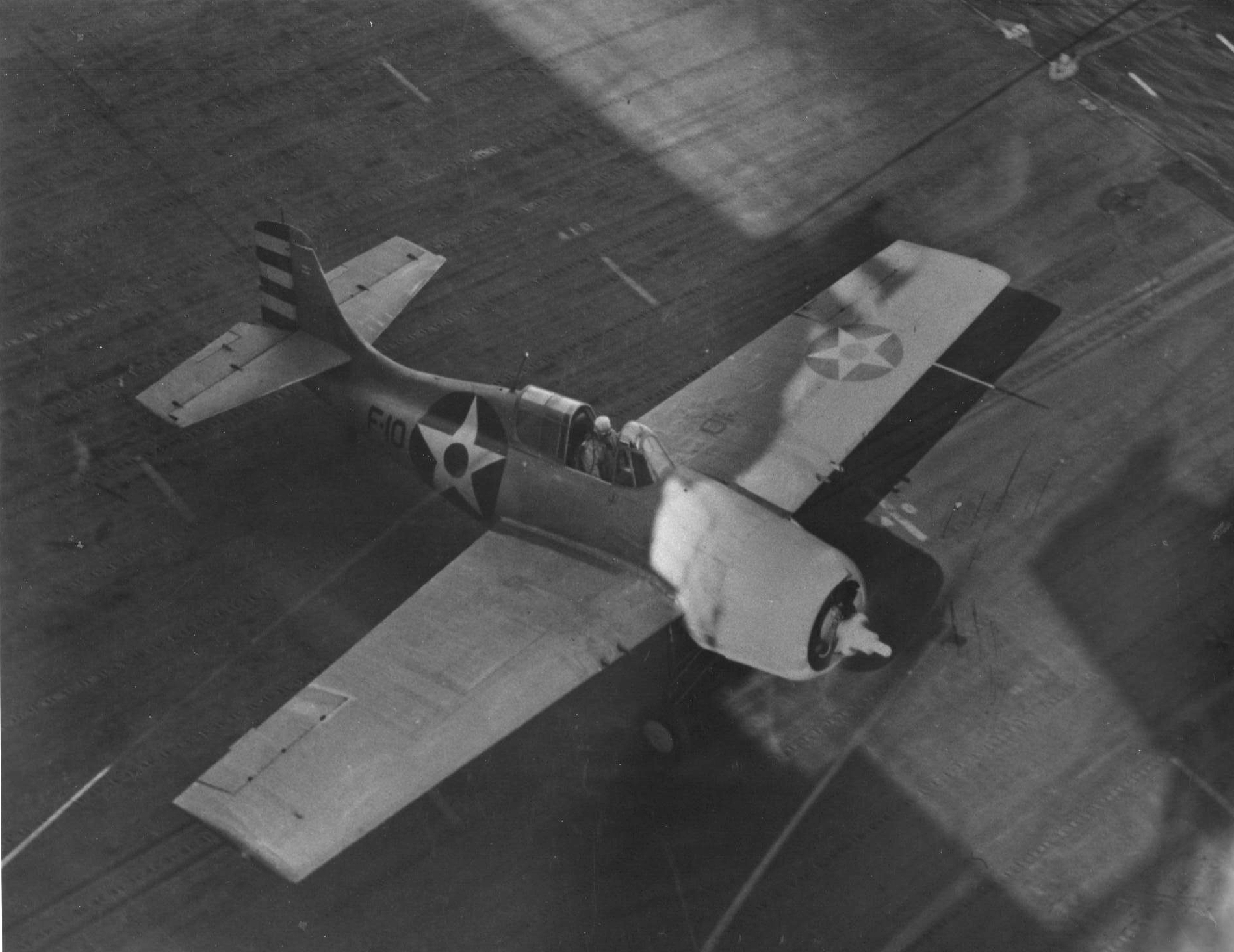 A U.S. Navy Grumman F4F-3 Wildcat from Fighting Squadron 6 (VF-6) taking off from the aircraft carrier USS Enterprise (CV-6).